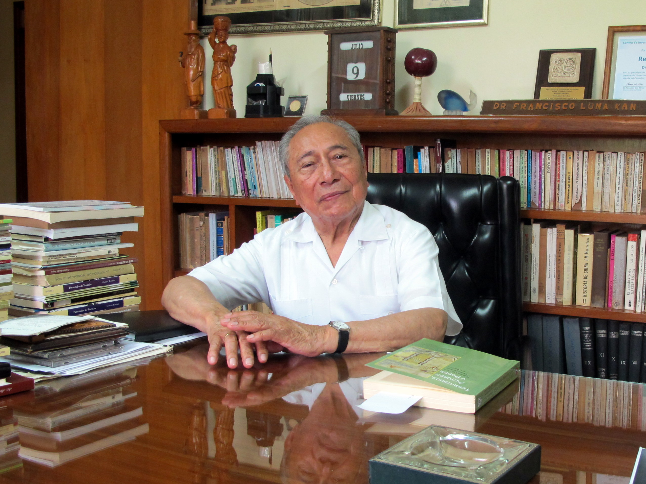 Dr. Francisco Luna Kan in his home office in Mérida Yucatán, 9 July 2010.